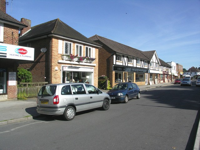 Shops at Parley Cross This row of local shops on New Road, south of the cross roads, includes a chemist, kitchen and tiles shops, a co-op grocery store, and a fish & chip shop. Pretty good selection for the residents.